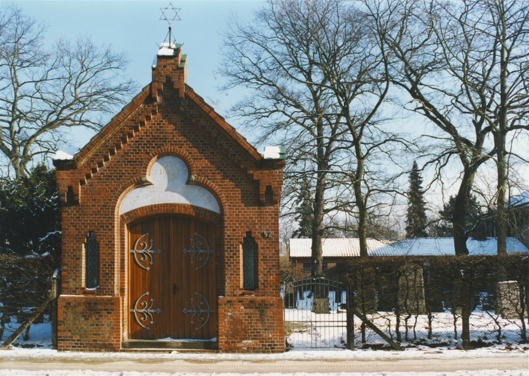 Elmshorn (Germany), Jewish cemetary, photo 2008